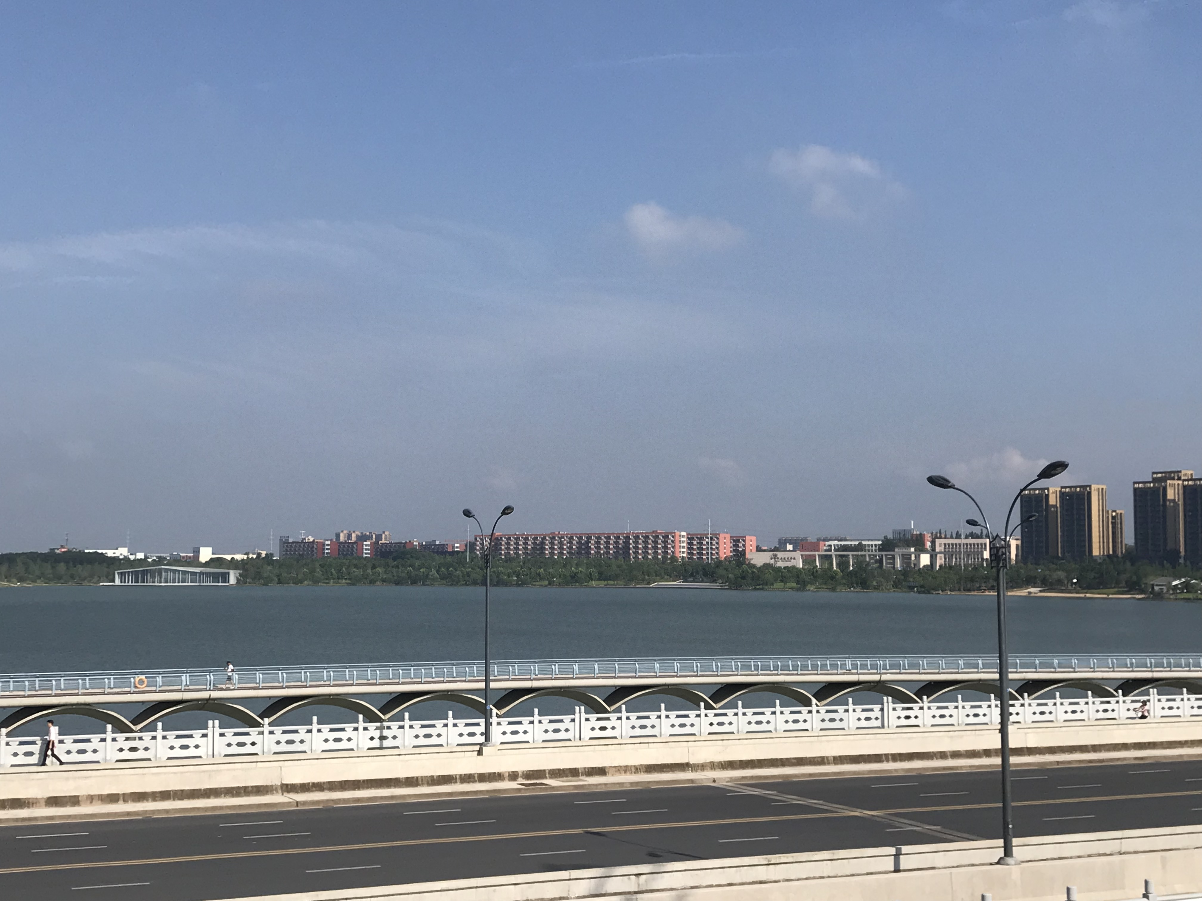 201806 Jinhua Polytechnic from Huhaitang